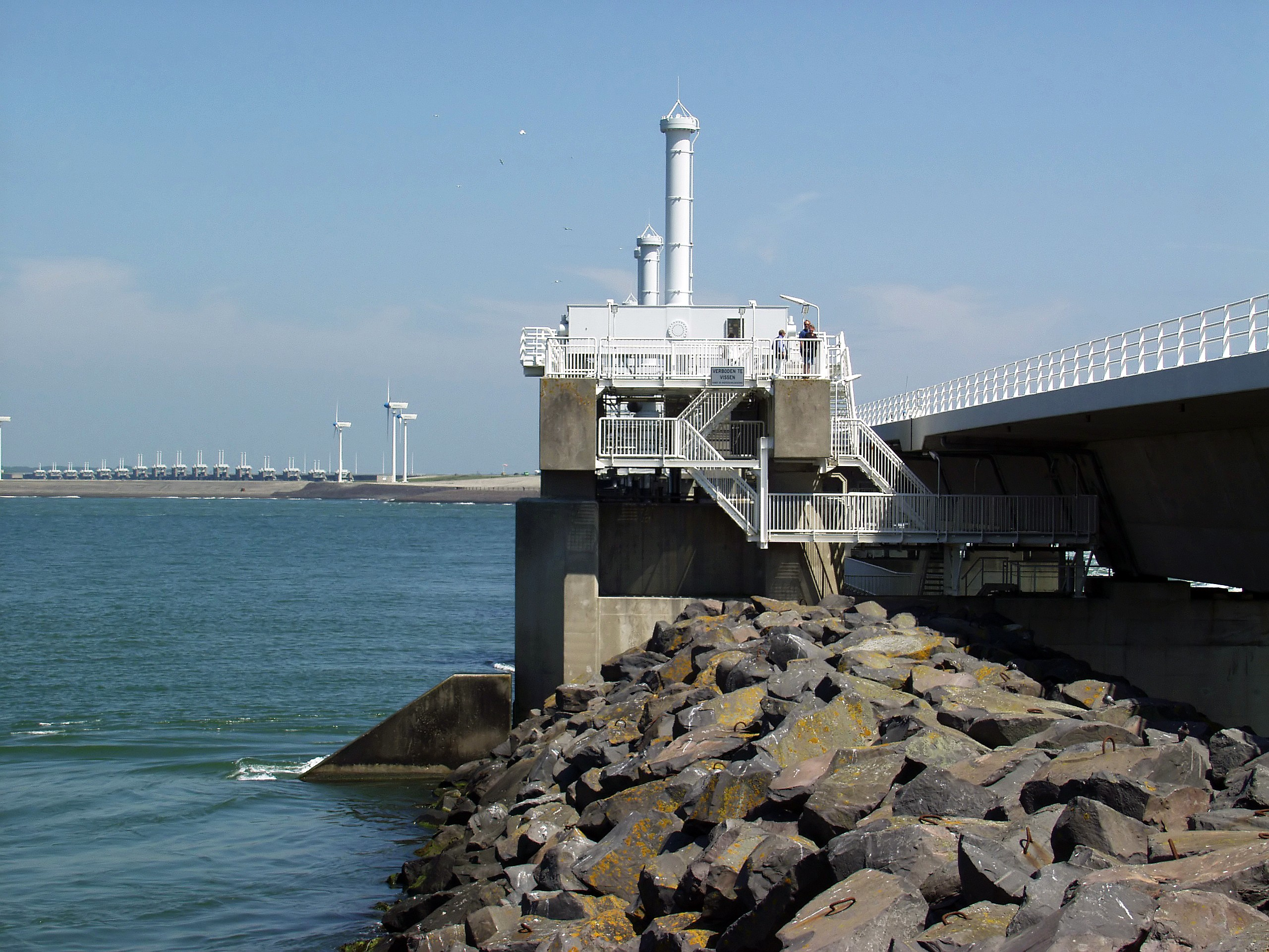 Delta Works, Oosterscheldekering, Netherlands.